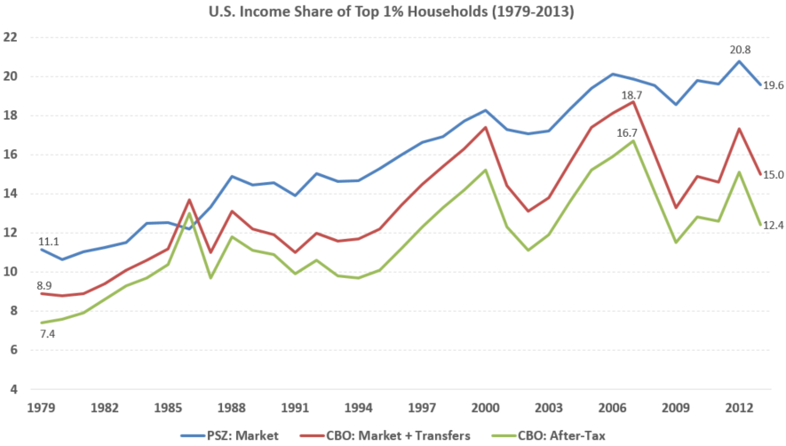 U.S. income share (%) of top 1% of households - CBO and Piketty-Saez data series compared